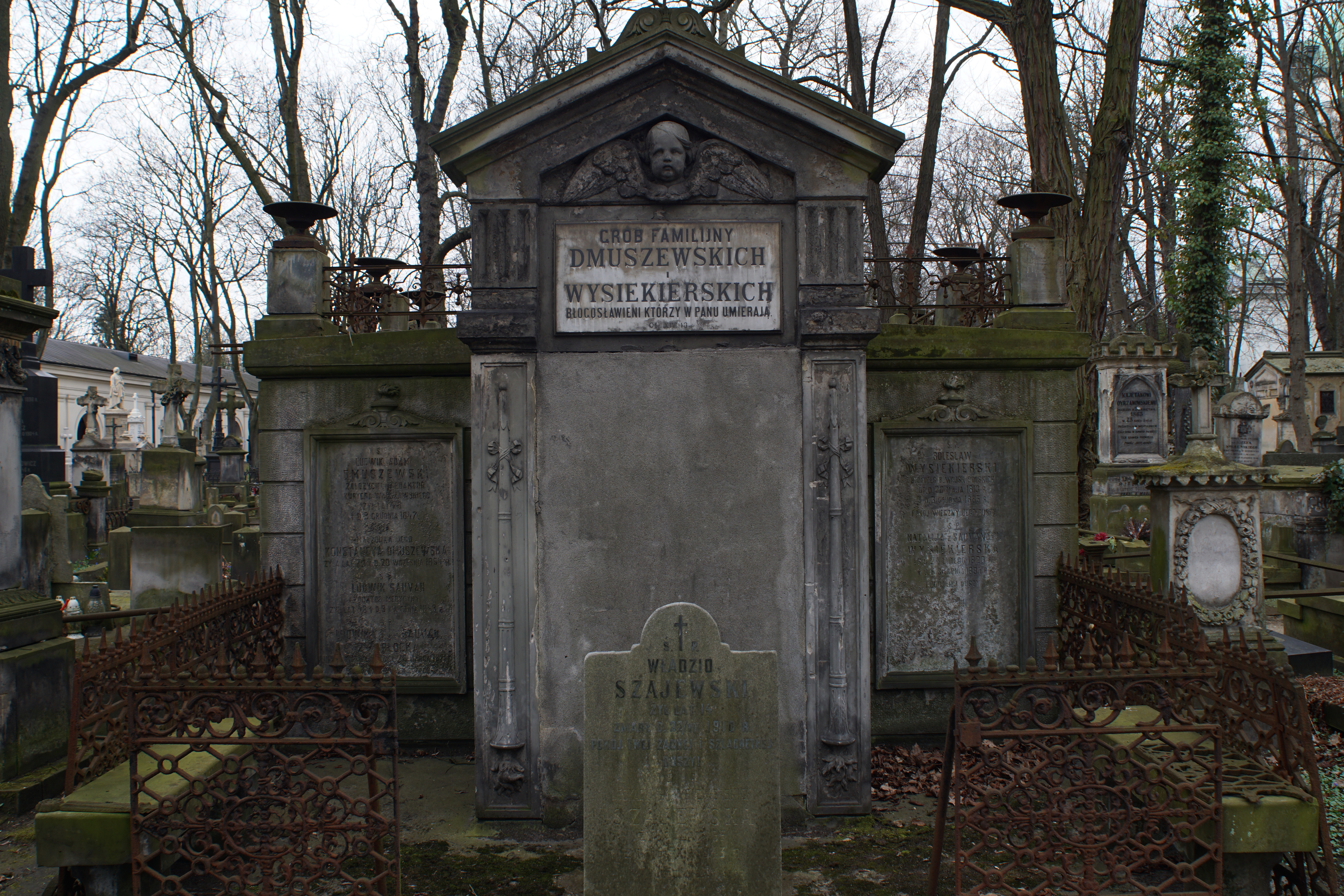 The grave of Ludwik Adam Dmuszewski at the Powązki Cemetery (section 4, row 1, 2, grave 16)